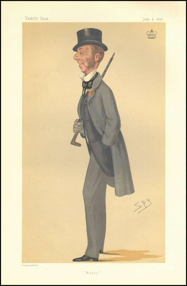 Statesmen No.229: Caricature of Lord Alington. Caption reads: "Bunny"